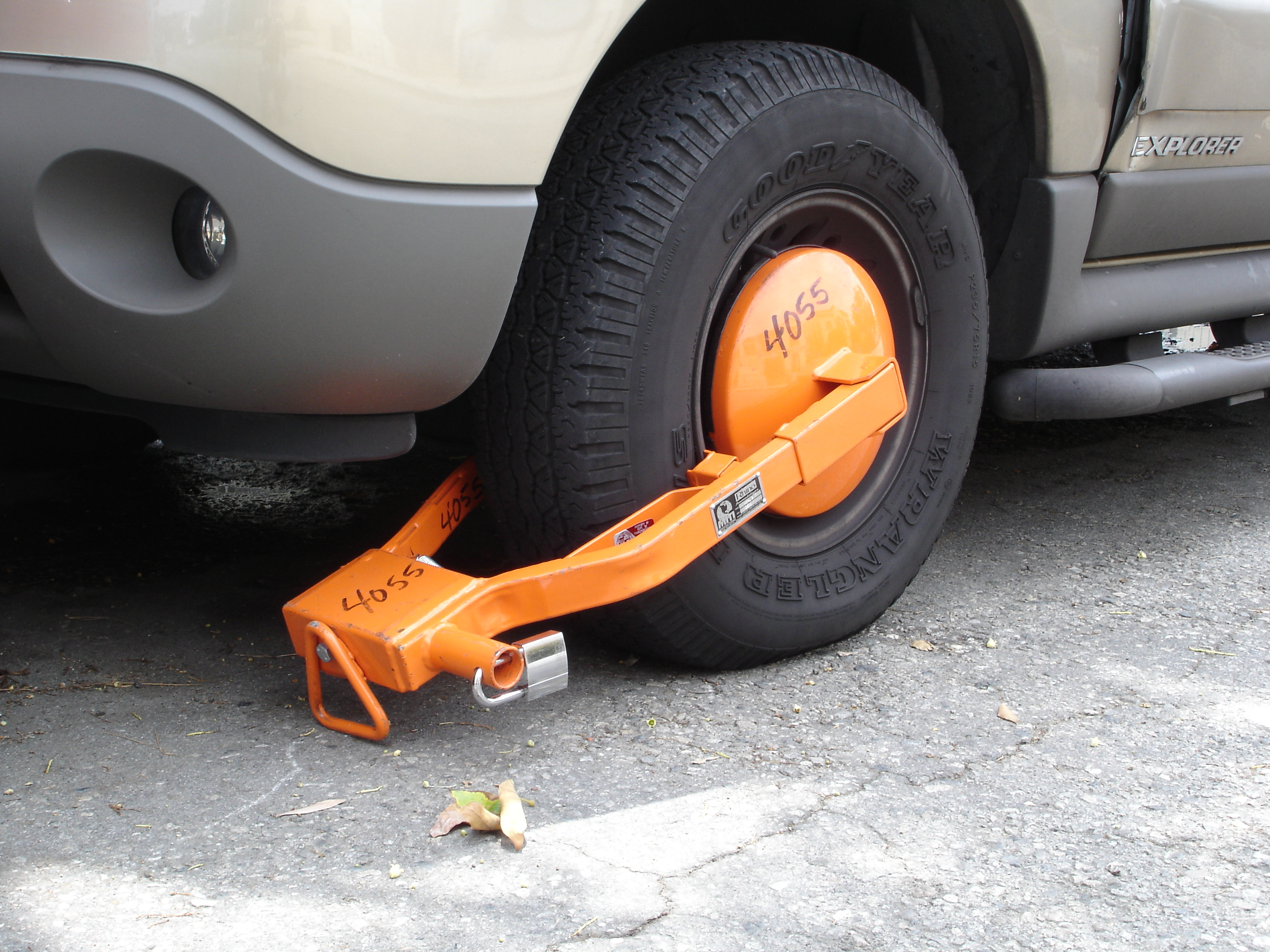 Denver Boot as used by the Los Angeles Department of Transportation on a Ford Explorer in Los Feliz. Photo taken 26 May 2006.